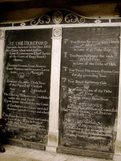 A carved record of the judgement in a tithe dispute, in a darkened corner of Clodock Church